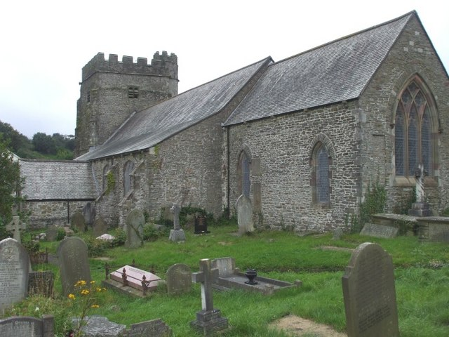 Llantrisant parish church The "three saints" are Illtyd, Gwynno and Dyfodwg